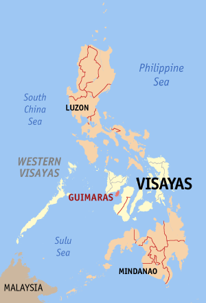 Map of the Philippines showing the location of Guimaras